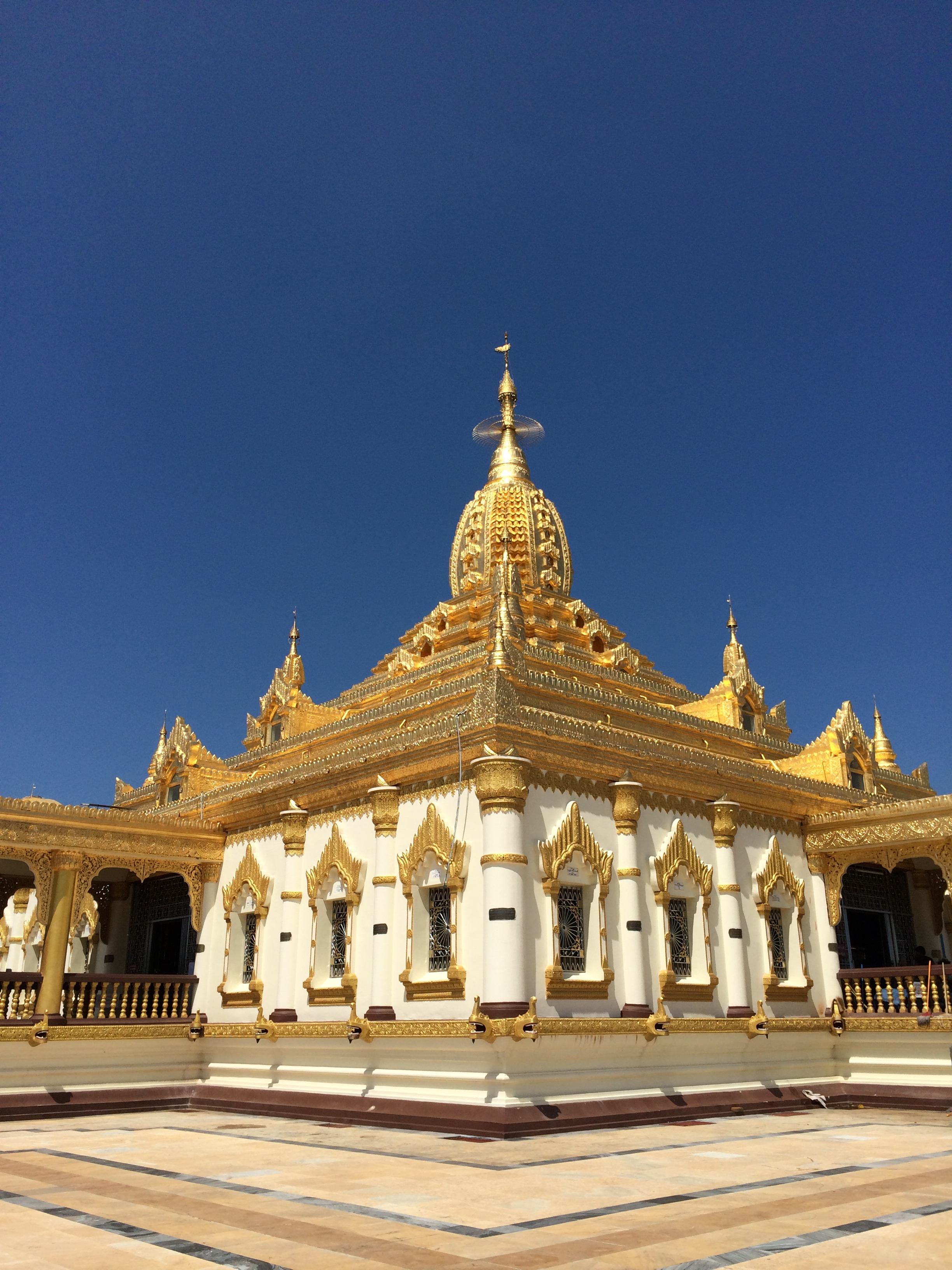 Mahar Ankhtookanthar Pagoda Temple in Pyin U Lwin Townshipမြန်မာဘာသာ: ပြင်ဦးလွင်မြို့နယ်ရှိ မဟာအံ့ထူးကံသာ ဆုတောင်းပြည့်မြတ်စွာဘုရား